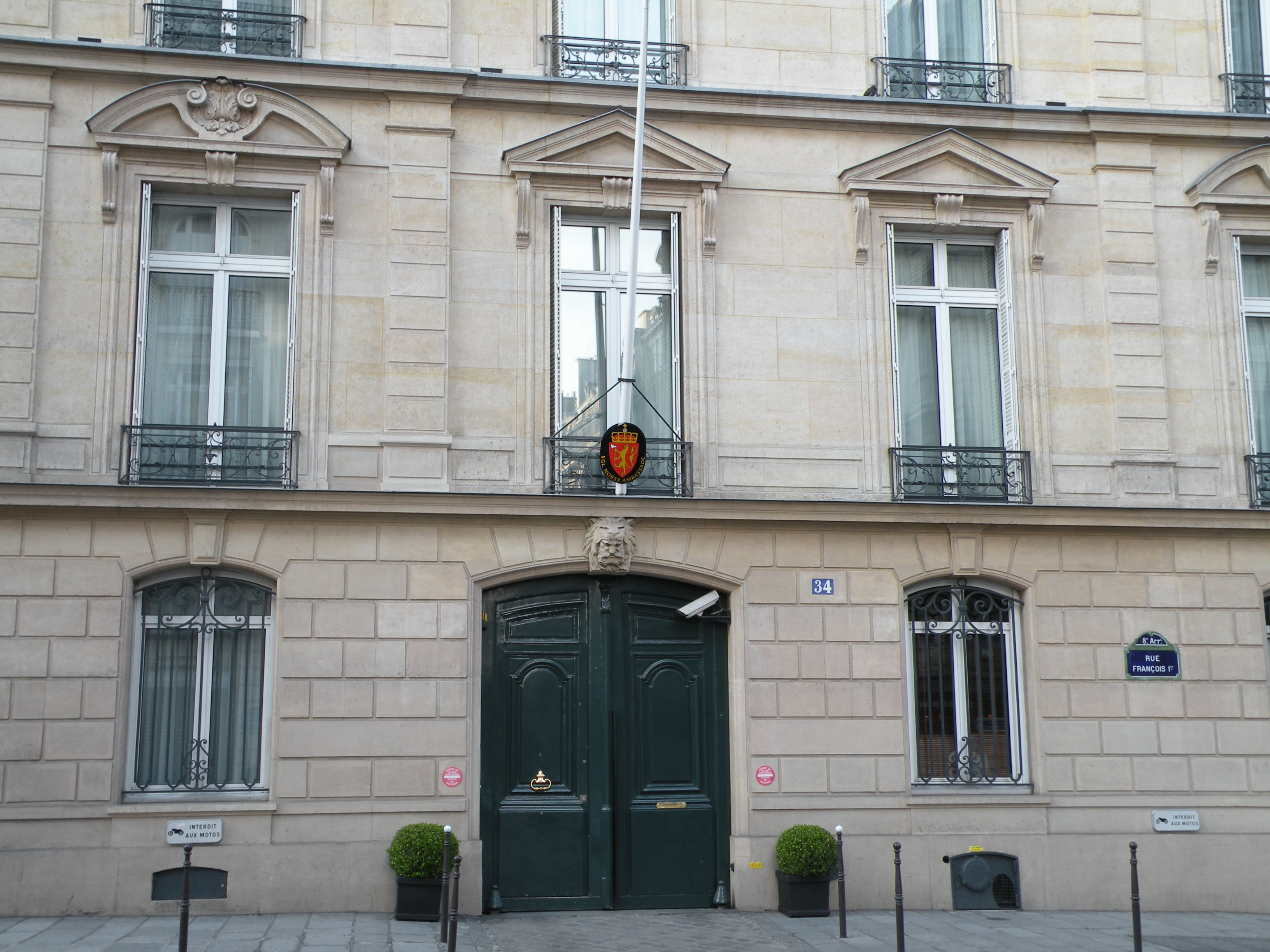 Residence of the Norwegian ambassador in France, Paris